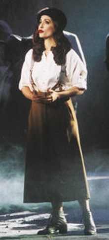 Vissi in the musical "Mala" at the Palace Theatre in Athens, Greece